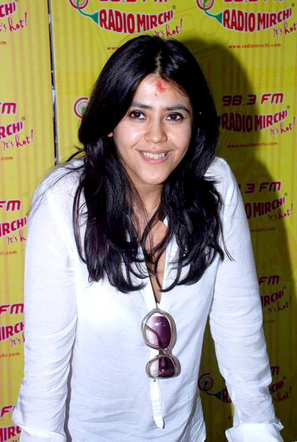 Ekta Kapoor at 98.3 FM Radio Mirchi